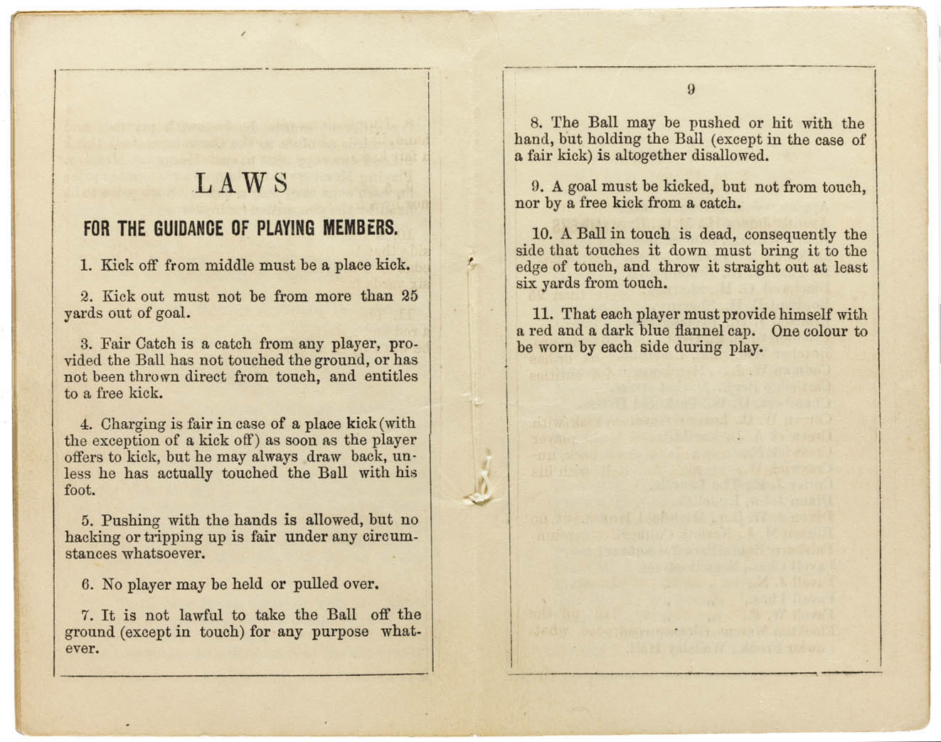 "Laws for the guidance of playing members": the laws of Sheffield Football Club, as revised by a committee appointed at the 1859 general meeting, and published later that year (according to Wikisource).